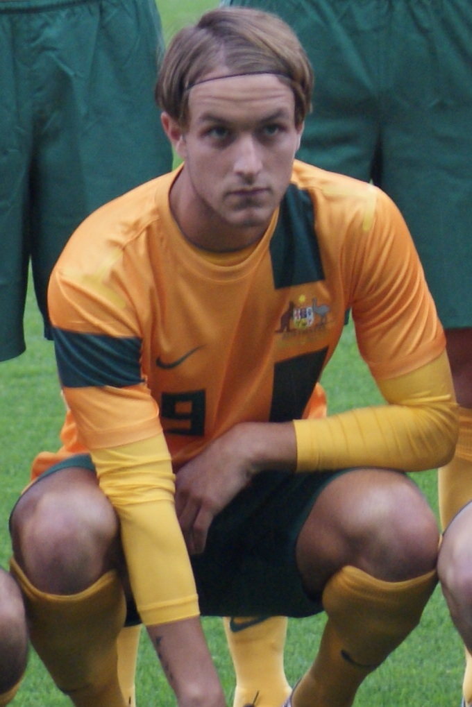 Young Socceroos vs New Zealand